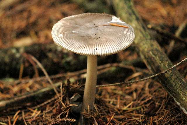 Amanita spec. from Commanster, Belgium. The determination of the species shown in this picture has been verified.